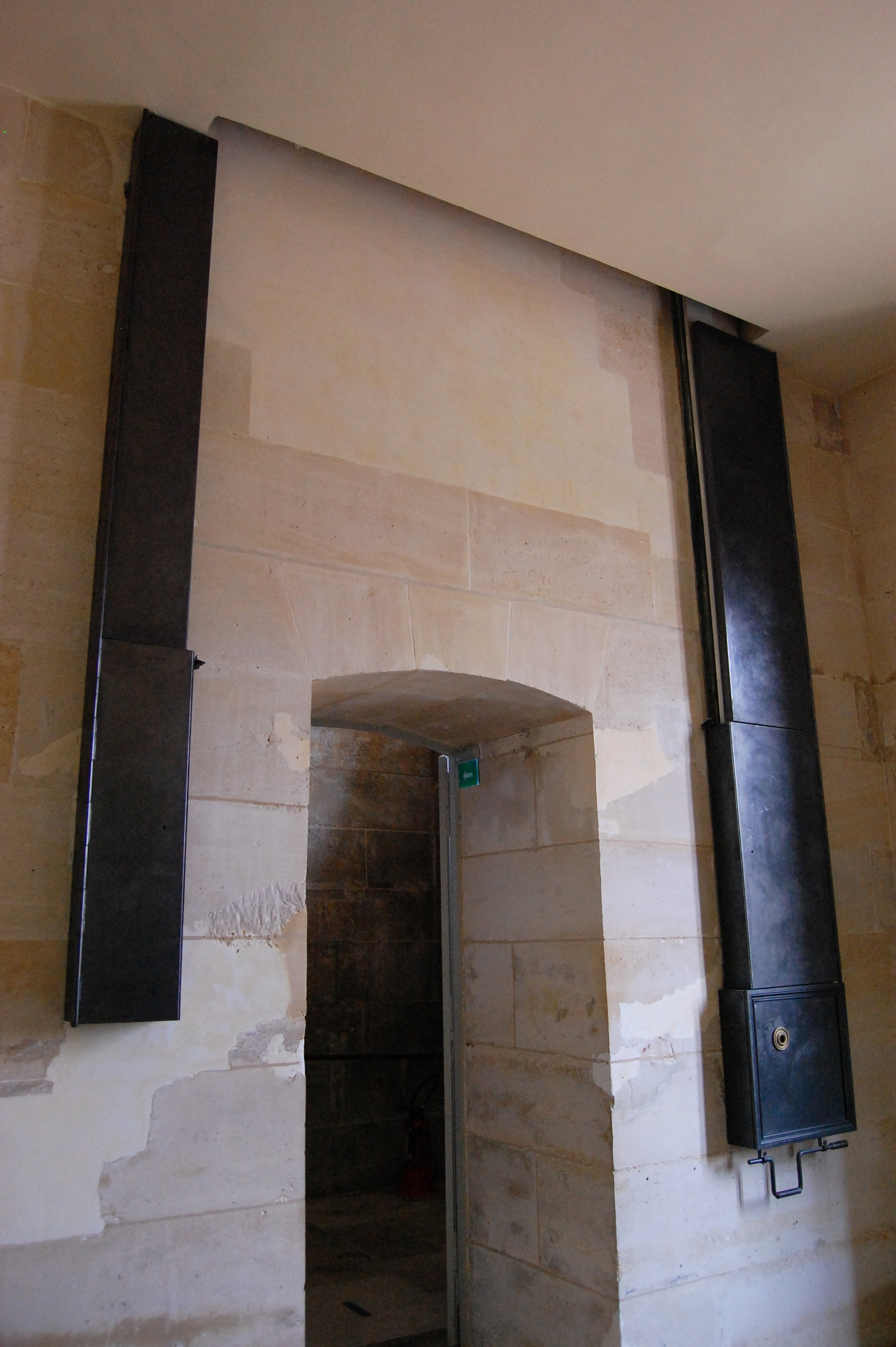 Mechanism of the moving mirrors of the Petit Trianon